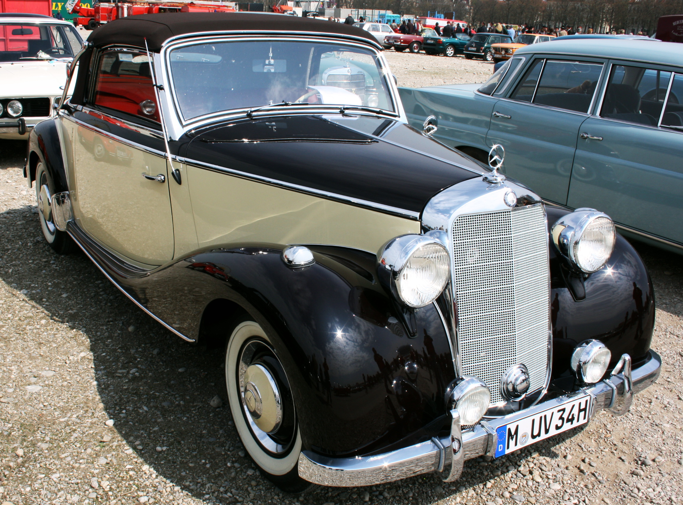 Daimler Benz 170 S Cabriolet A Year 1950